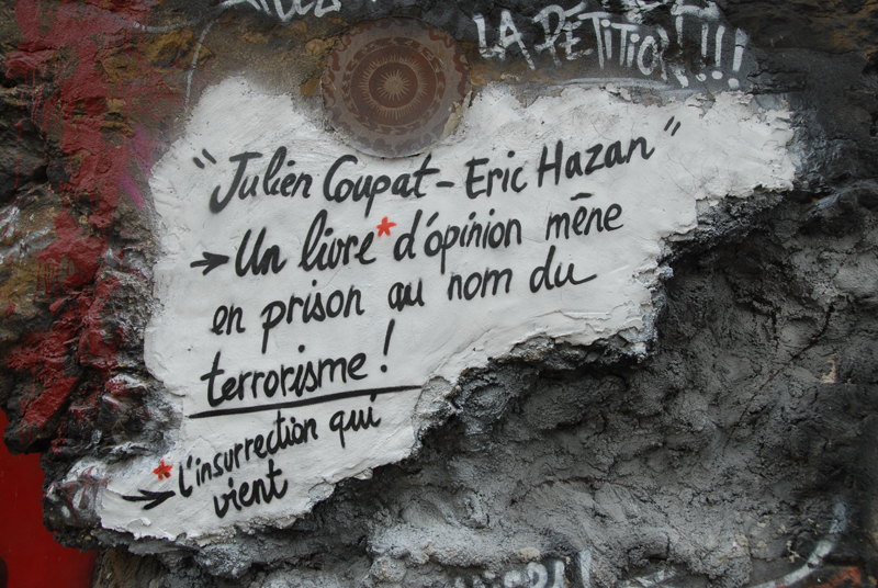 Graffiti promouvant le livre du Comité invisible L'insurrection qui vient, évoquant Éric Hazan et Julien Coupat (figure de l'affaire de Tarnac).